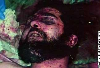 Photo of Qusay Hussein's body after his death. Because many Iraqis were skeptical about news of the deaths the US government released photos of the corpses and allowed Iraq's governing council to identify the bodies despite the US's objection to the publication of American corpses on Arab television.